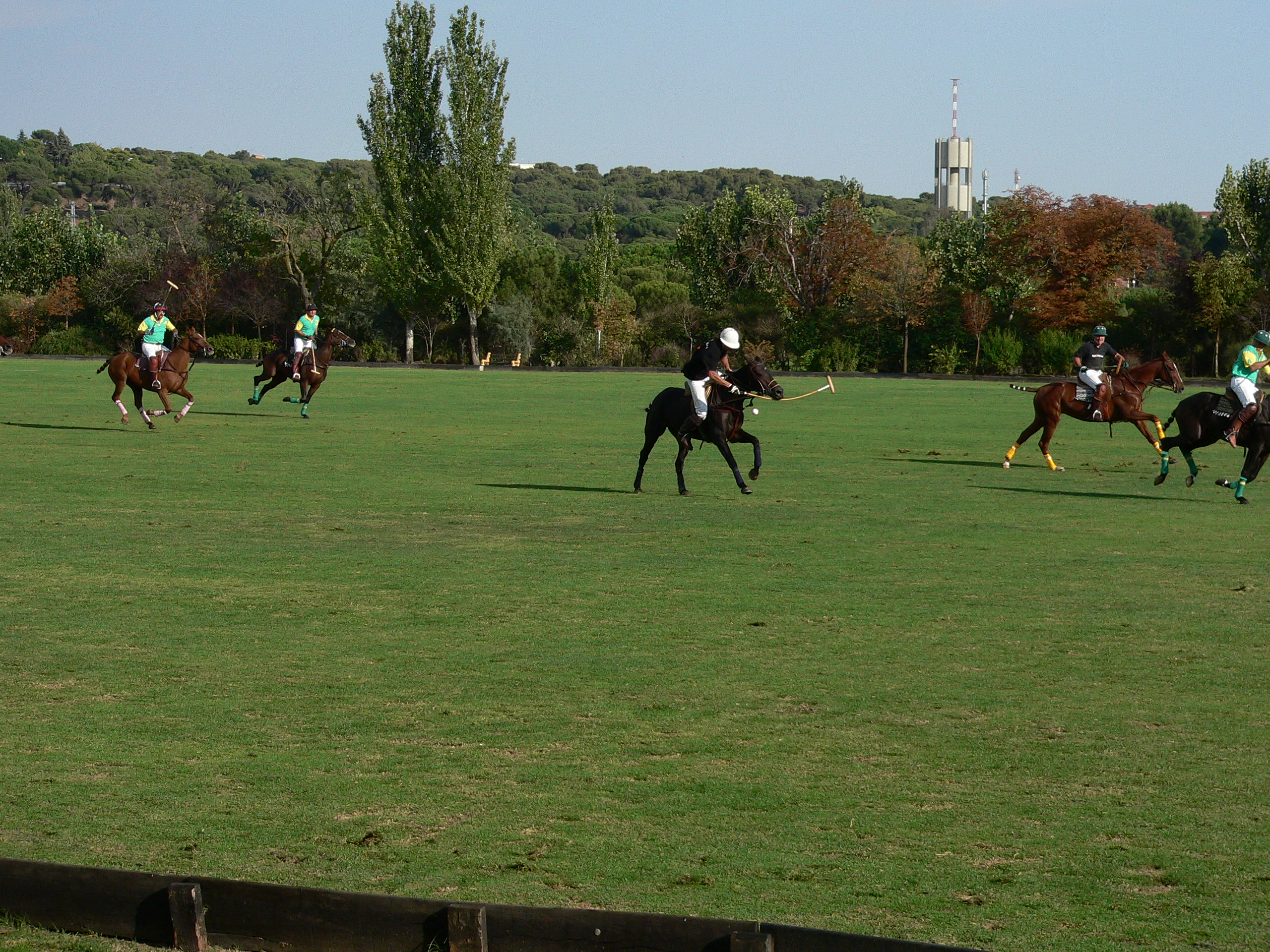 Description: Polo Subject: Playing polo Place : Real Club Puerta de Hierro City : Madrid Country : Spain Photographer: © Manuel González Olaechea y Franco Shot date : September, 25th , 2005